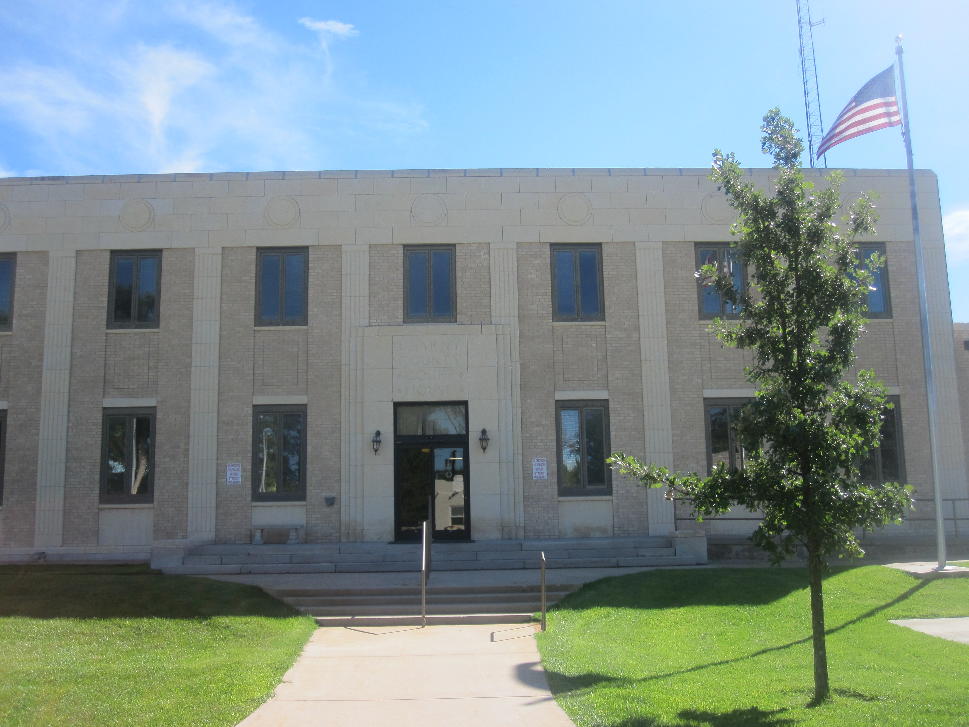 I took photo with Canon camera in Lakin, KS.